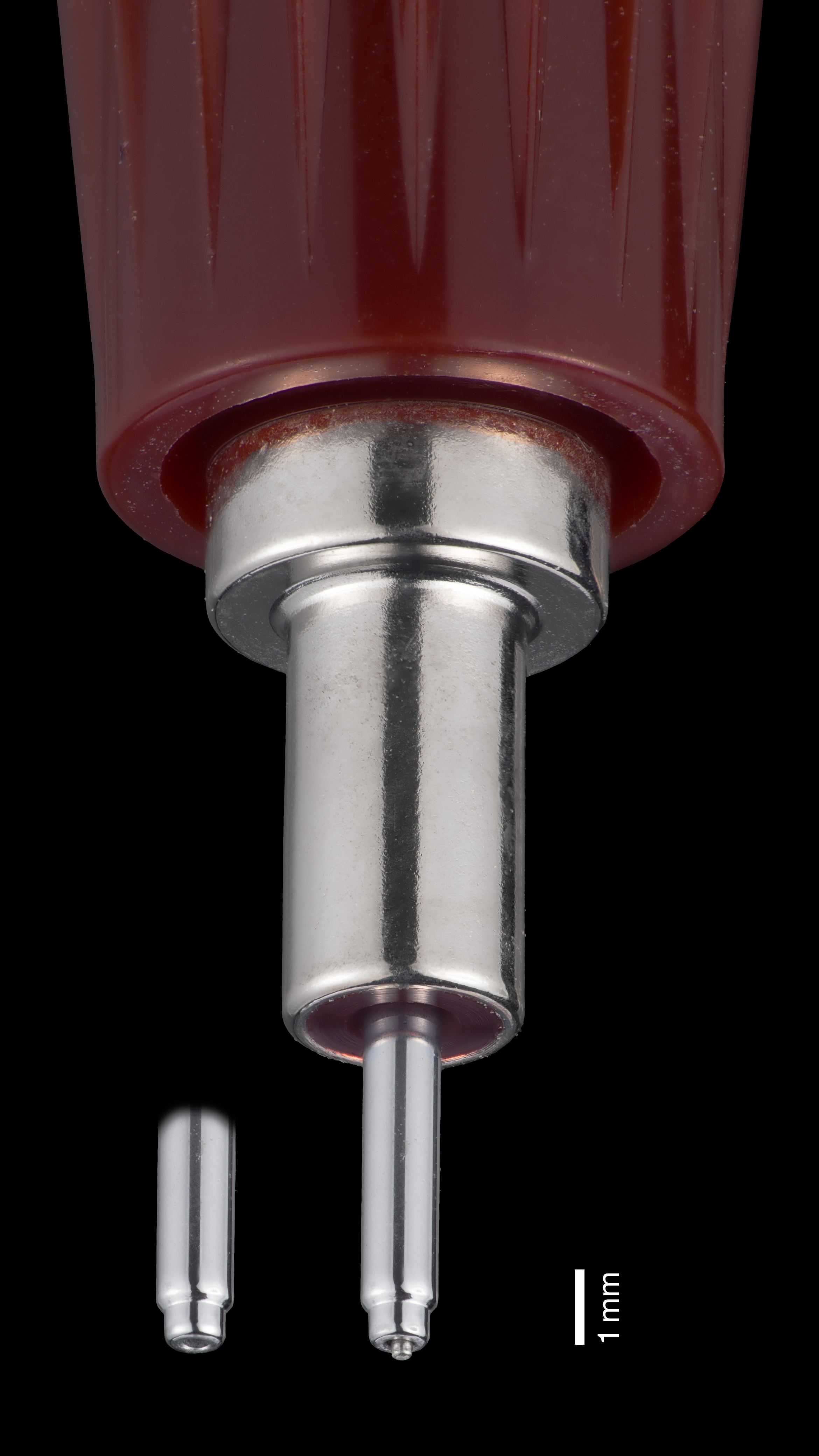 Rotring Isograph 0.7 mm tip with scale